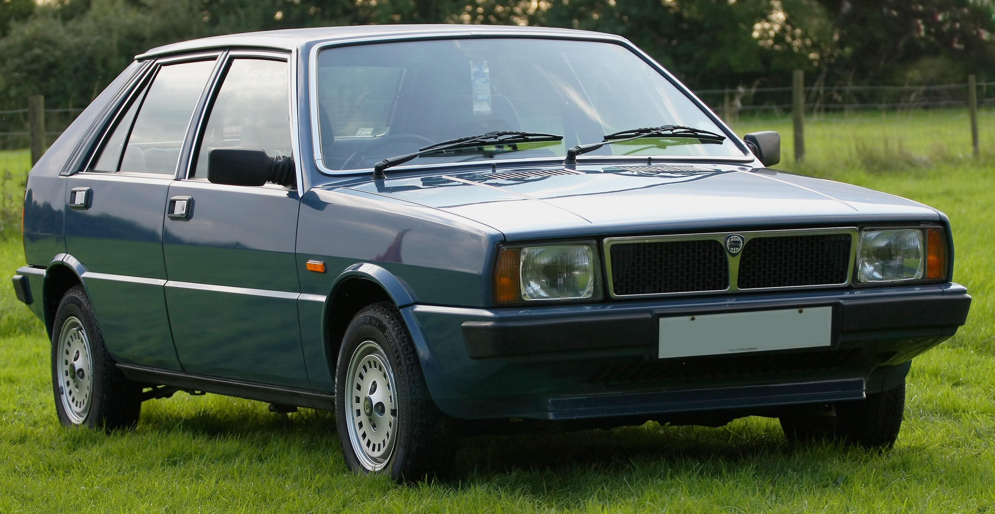 1982 Lancia Delta 1500